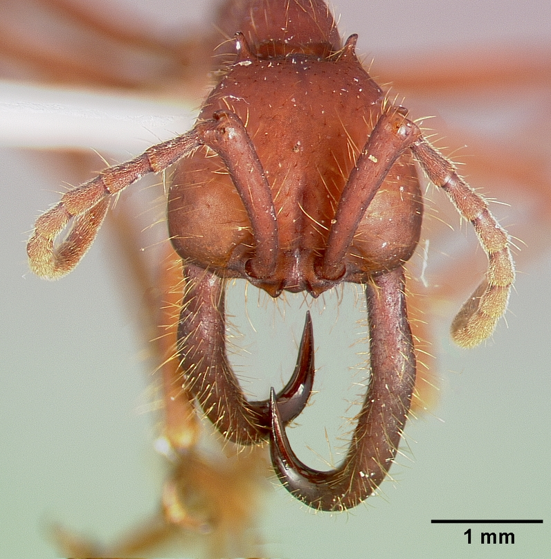 Head view of ant Eciton mexicanum specimen casent0006116.